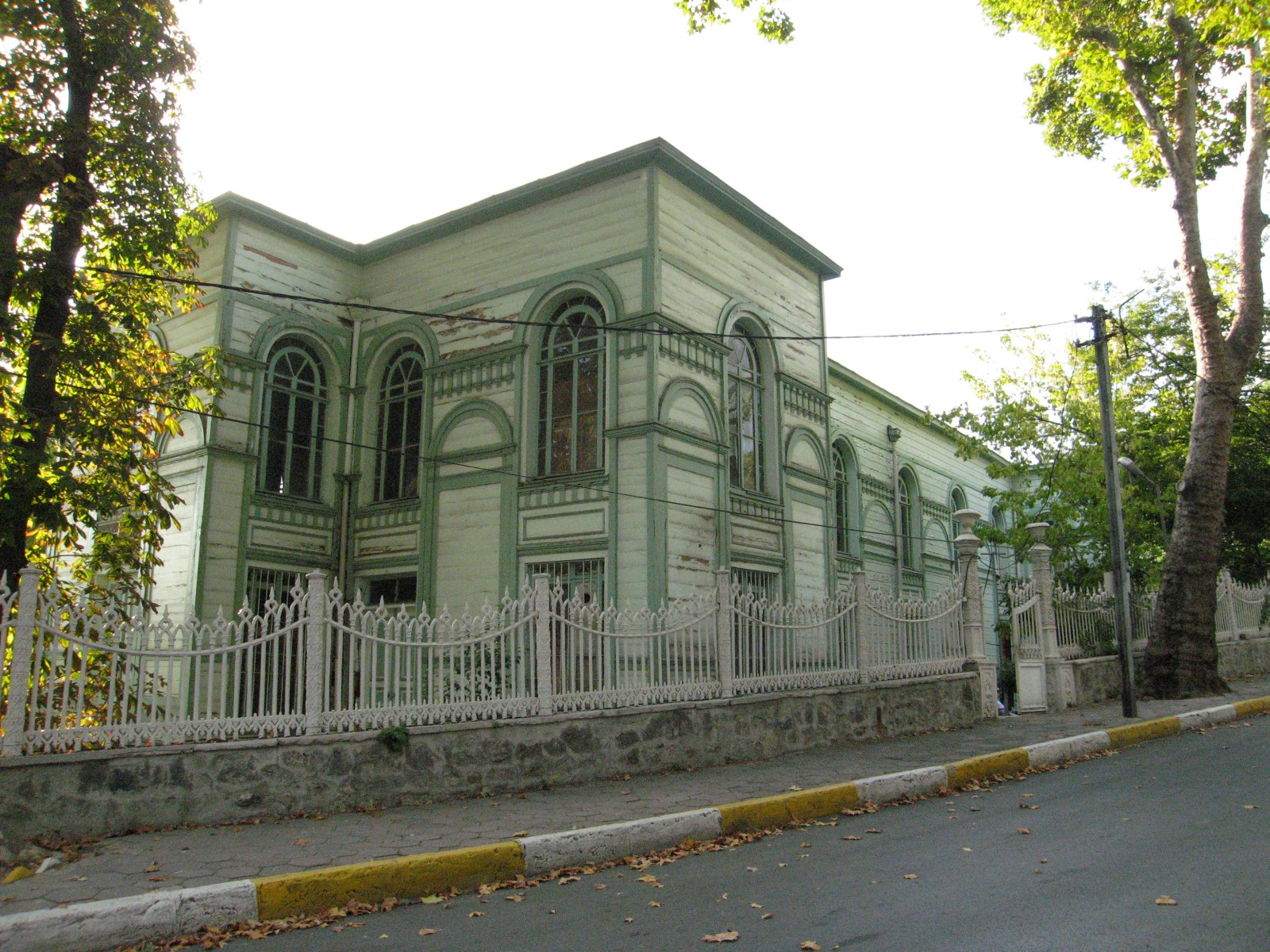 Ertuğrul Tekke Mosque located in Yıldız neighbourhood of Beşiktaş district in Istanbul, Turkey.